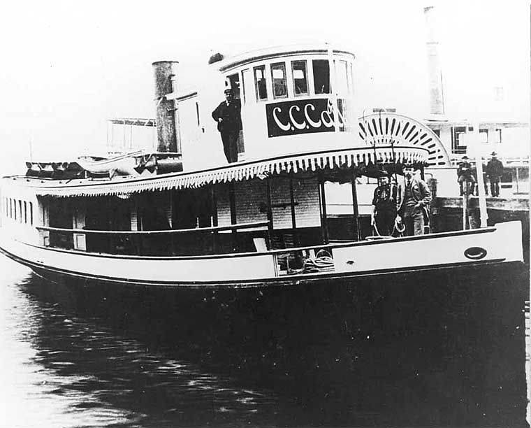 Handwritten on verso: The S.S. C.C. Calkins in 1890. It was one of the earlier boats on the lake. It ran from Leschi to East Seattle (Mercer Island) in 5 minutes. PH Coll 141.26 Ferry service between Seattle and Bellevue began in 1885 with stops at Meydenbauer Bay. In the beginning, ferries stopped when hailed by passengers on shore. A regular schedule developed with the 1892 arrival of the 78-ft. steamer C.C.Calkins. Subjects (LCTGM): C.C. Calkins (Ship); Steamboats--Washington (State); Ferries--Washington (State); Washington, Lake (Wash.) Subjects (LCSH): Lakes--Washington (State)--Seattle